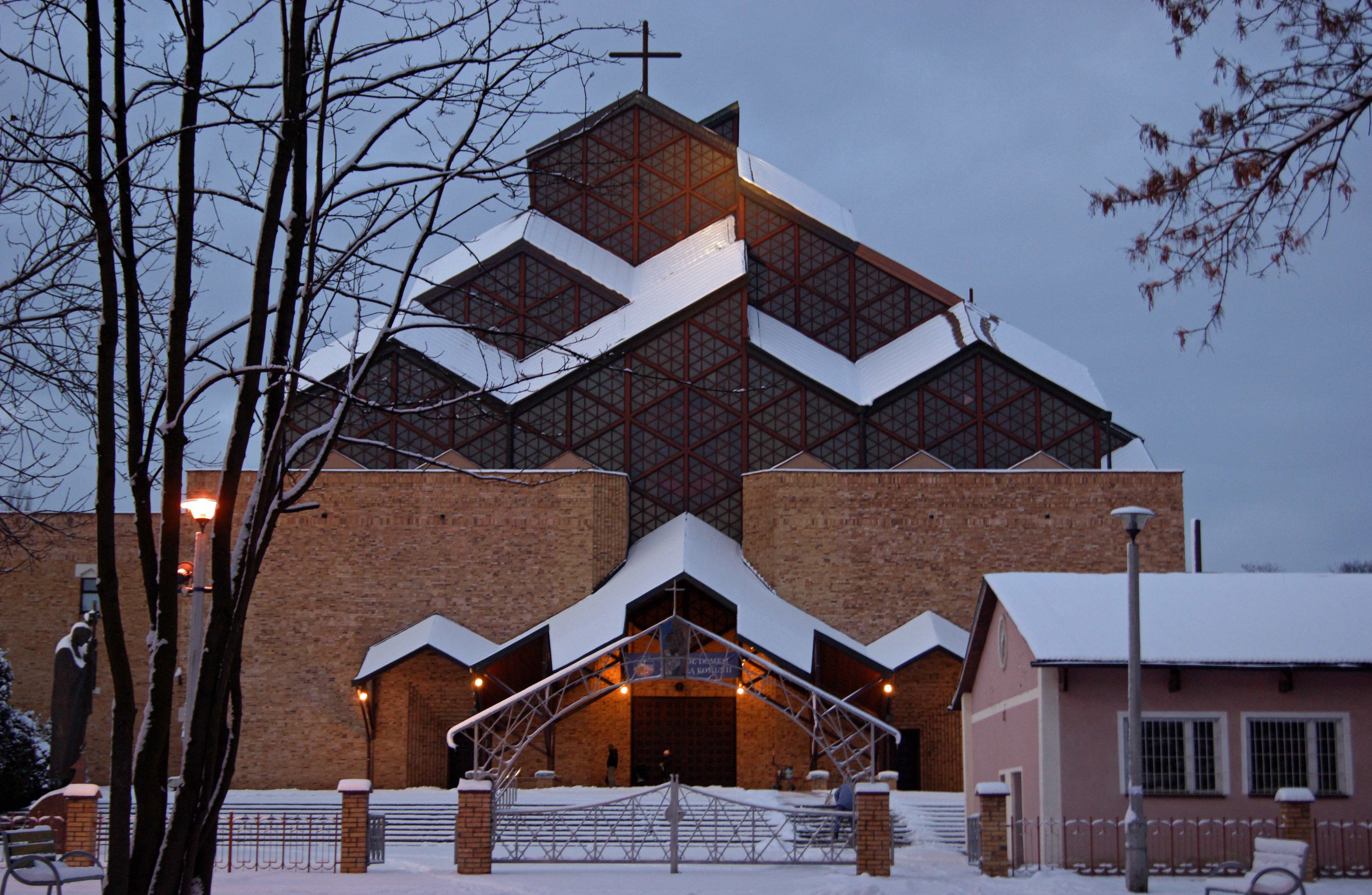 Church of Our Lady of Czestochowa, 7 os. Szklane Domy, Nowa Huta, Krakow, Poland